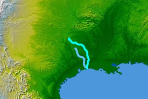 Sabine River © 2004 Matthew Trump